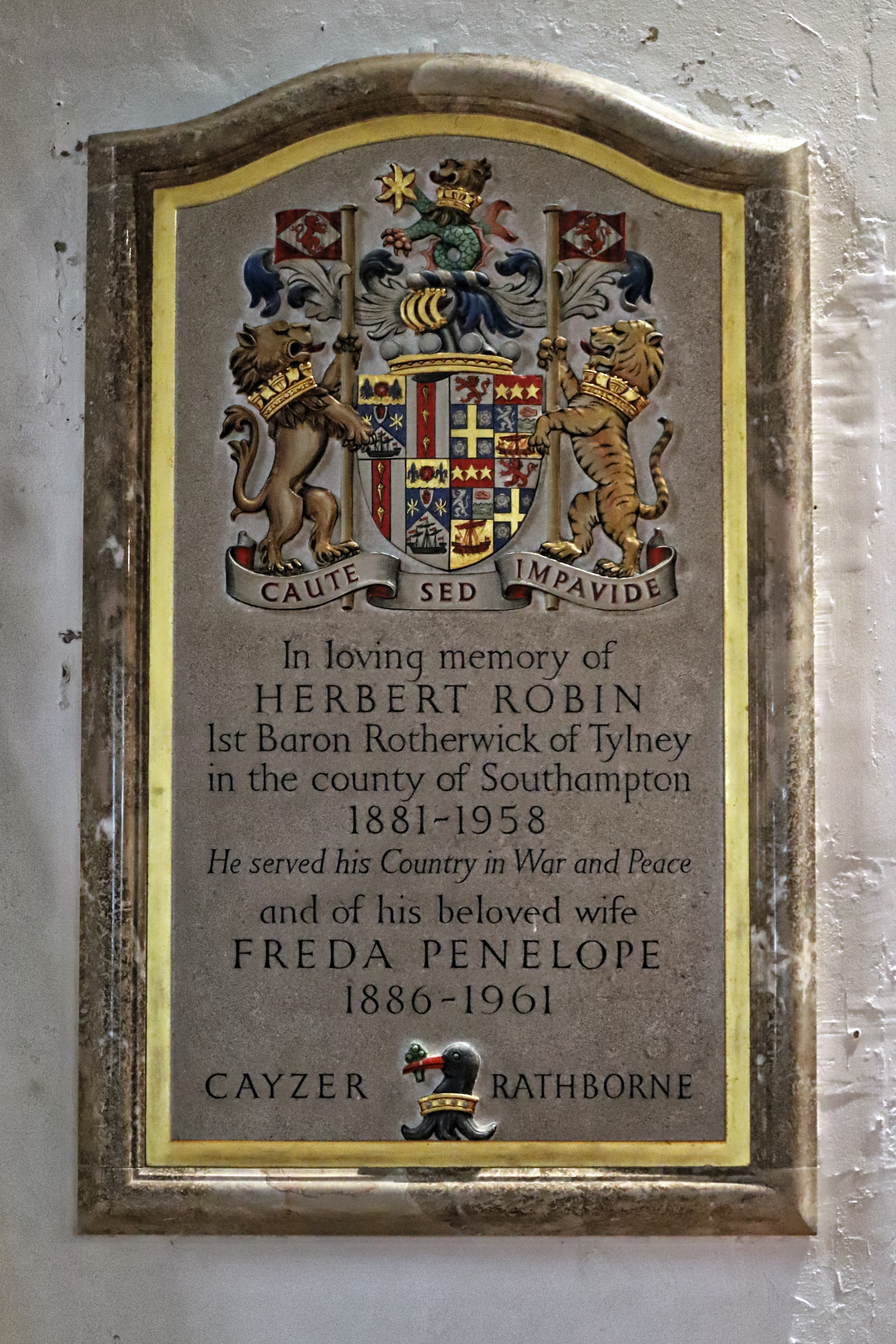 Memorial marble tablet plaque to Herbert Robin Cayzer, 1st Baron Rotherwick (1881-1958), and his wife Freda Penelope, daughter of William Hans Rathbourne (1886-1961), on the north wall of the nave of the Grade II listed St Andrew's Church on Nuthurst Street (aka Harriots Hill) in the village of Nuthurst, West Sussex, England.Camera: Canon EOS 6D Mark II with Canon EF 24-105mm F4L IS USM lens.Software: File lens-corrected, optimized, perhaps cropped, with DxO OpticsPro 11 Elite, and likely further optimized with Adobe Photoshop CS2.